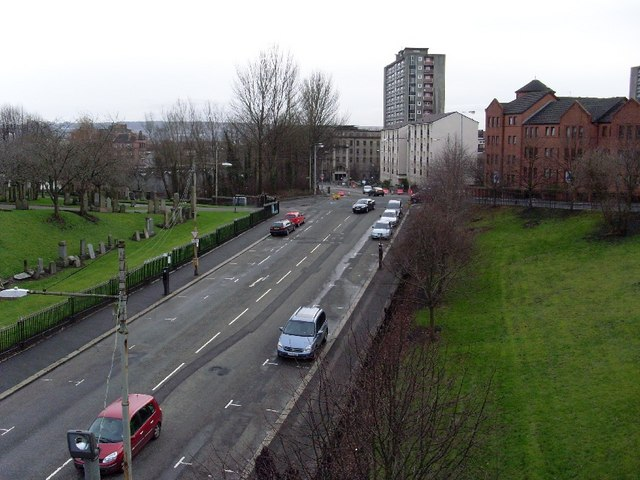 Wishart Street, Glasgow Between the Cathedral and the Necropolis. Formerly the Molendinar Burn.